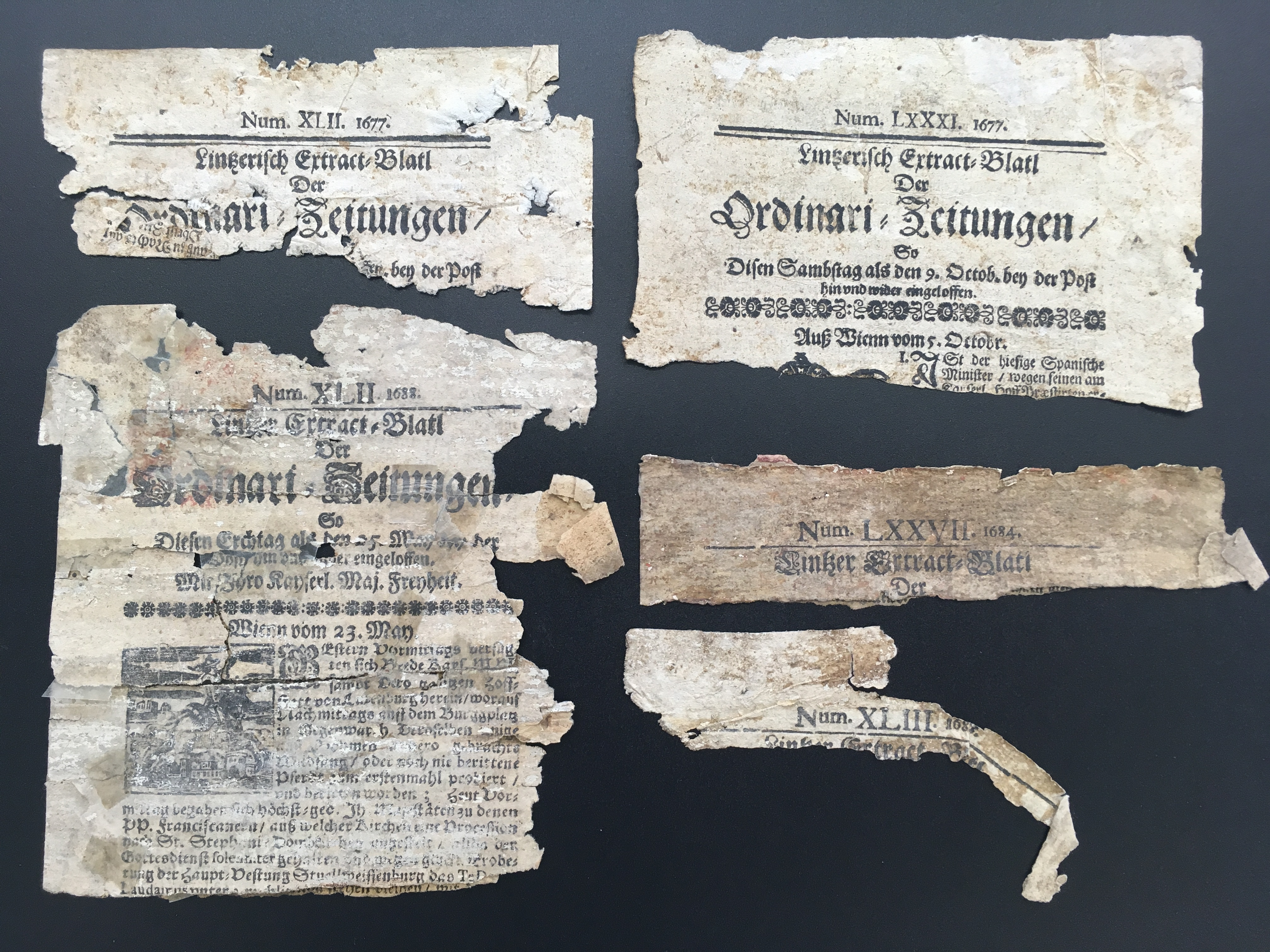 Linzer Zeitung, fragments in envelope 1677+1684+1688